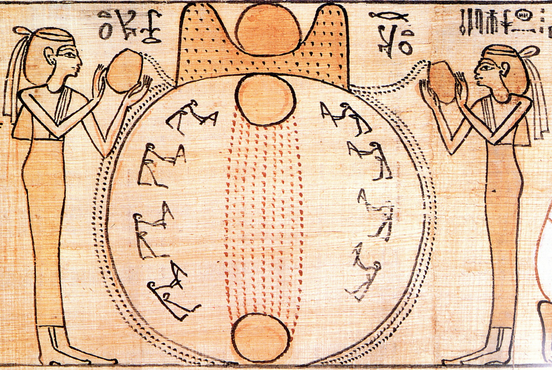 The sun rises from the mound of creation at the beginning of time. The central circle represents the mound, and the three orange circles are the sun in different stages of its rising. At the top is the "horizon" hieroglyph with the sun appearing atop it. At either side are the goddesses of the north and south, pouring out the waters that surround the mound. The eight stick figures are the gods of the Ogdoad, hoeing the soil.